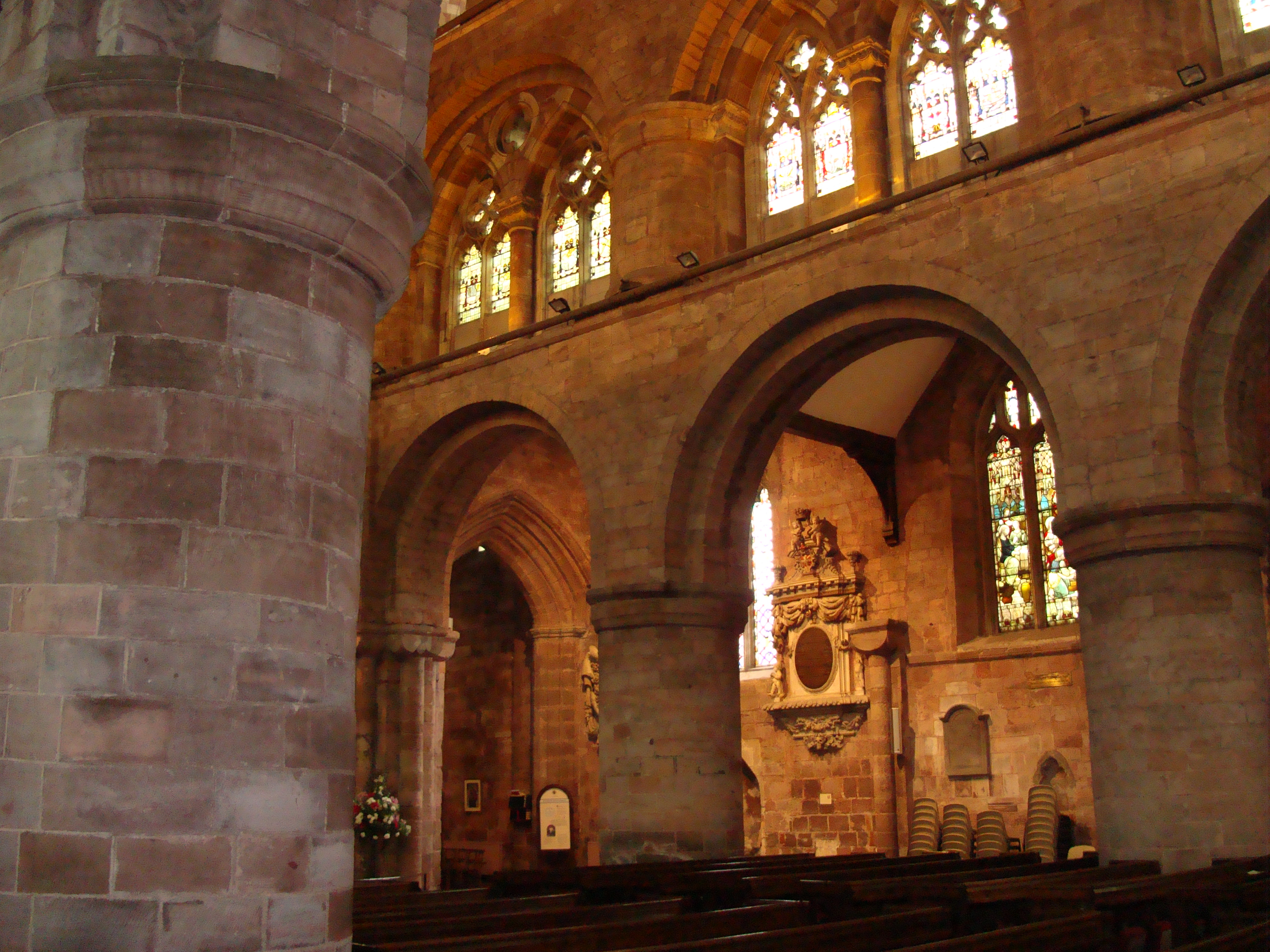 Photograph of Shrewsbury Abbey, Shropshire, England - interior